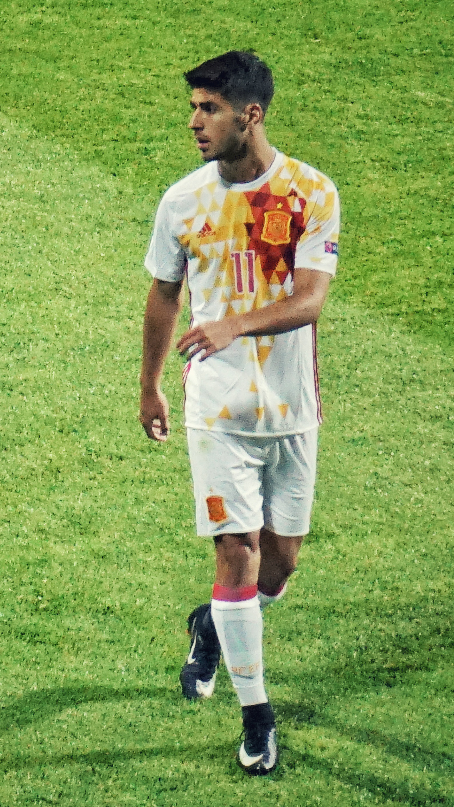 Marco Asensio during UEFA European Under-21 Championships game between Portugal and Spain on 20 June 2017 in Gdynia, Poland.